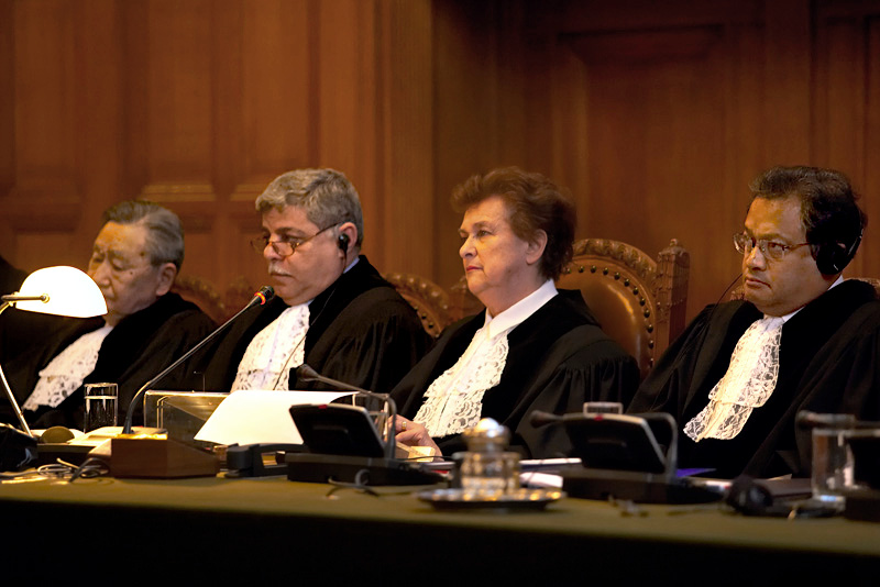 Public hearings of the Court presided over by H.E. Judge Rosalyn Higgins (February/March 2006) - Sixtieth anniversary of the International Court of Justice – Solemn sitting of Wednesday 12 April 2006